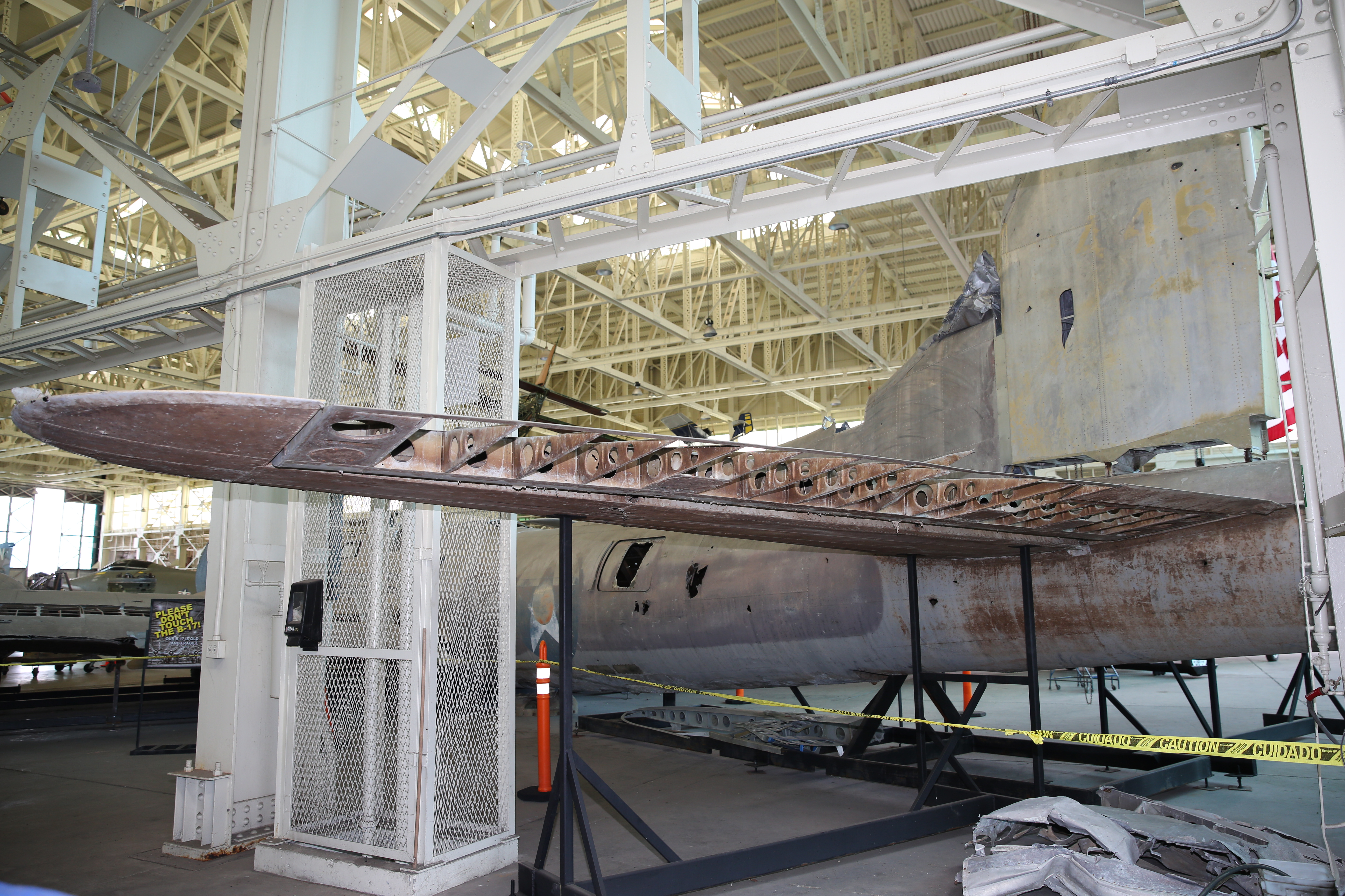 The Swamp Ghost is a Boeing B-17E Flying Fortress that ditched in a swamp on Papua New Guinea inFebruary 1942. It was rediscovered in 1972, and brought to the United States in 2010. It was move to the Pacific Aviation Museum in Pearl Harbor in April 2013. This photograph shows Swamp Ghost in Hangar 79 on Ford Island of Pearl Harbor, undergoing restoration in October 2015.